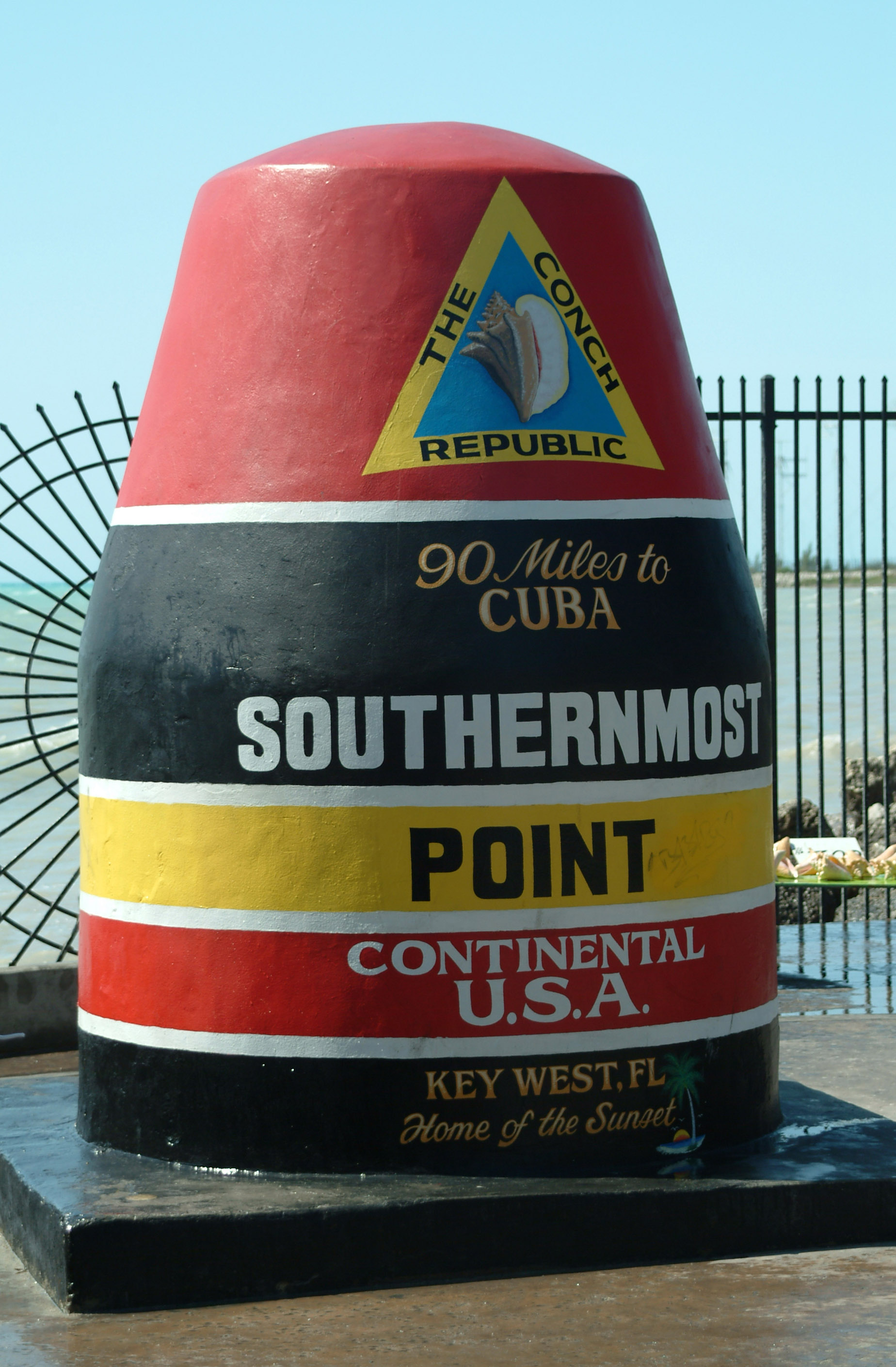 Southernmost Point of the U.S., Key West, FL